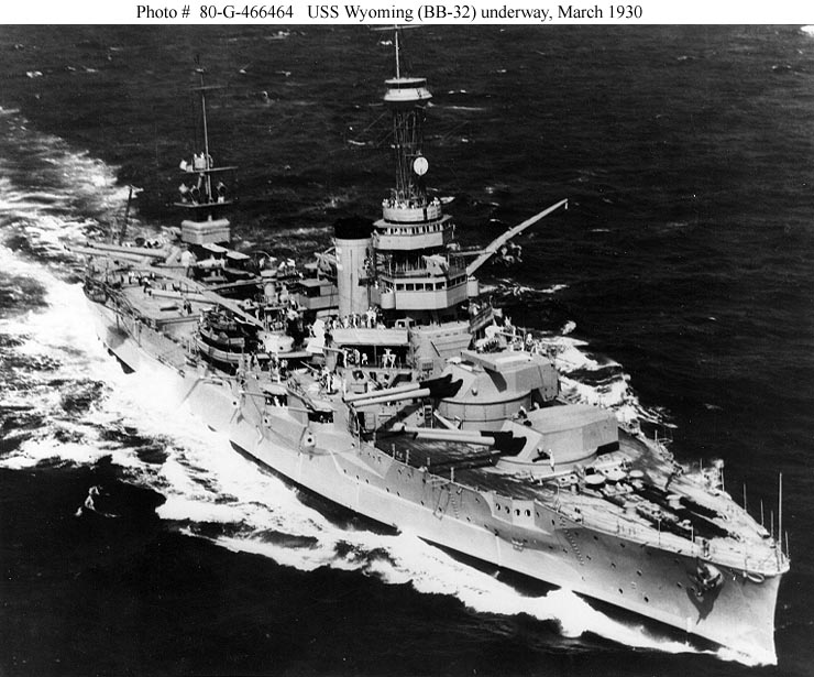 American battleship USS Wyoming (BB-32) underway in March 1930